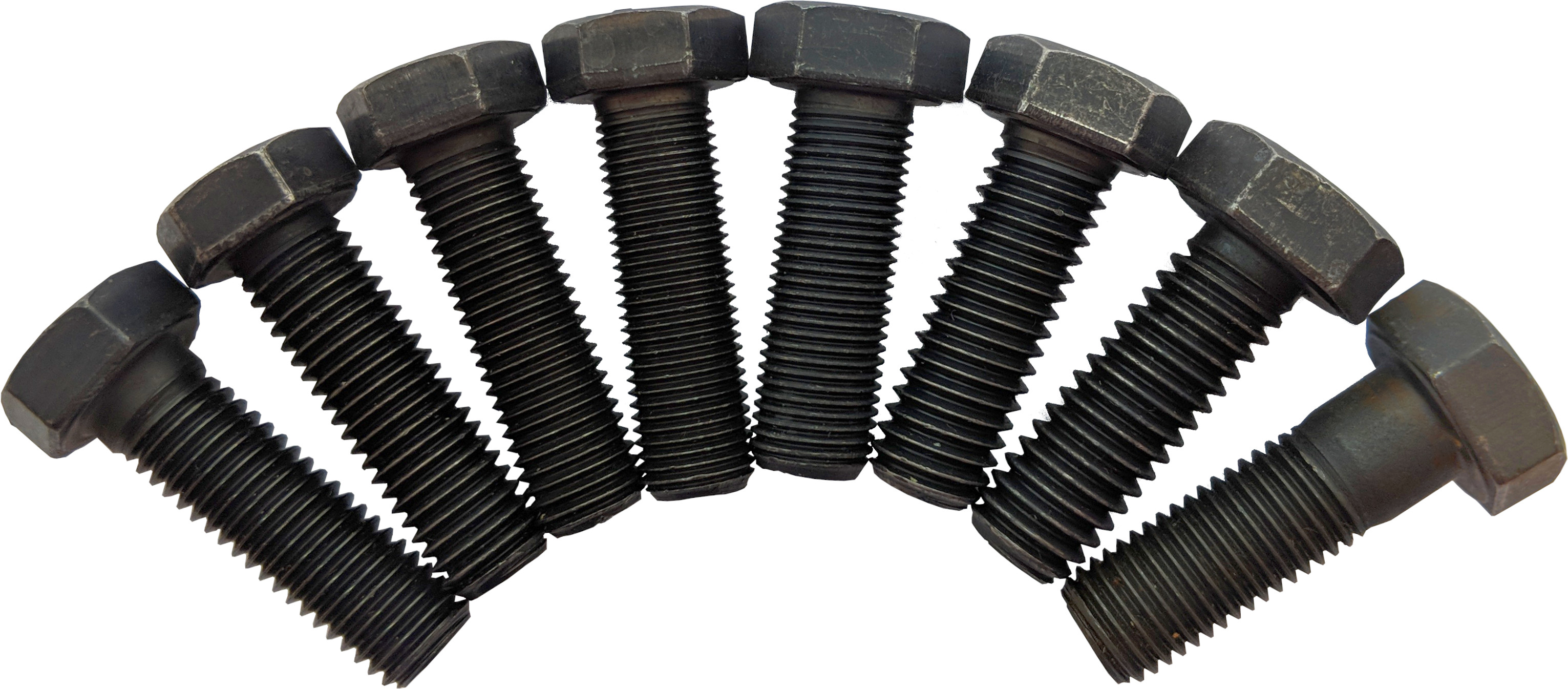 Screws with different thread types. From left to right Metric M12, 40 mm long left turning thread Metric M12, 40 mm long (ISO 4017, Strength 8.8)) Metric Fine M12x1.5, 40mm long Metric Fine M12x1.25, 40mm long (ISO 8676, Strength 8.8) United thread Standard Fine UNF 1/2 inch, 1.5 inch long (Strength Grade 5 ( ~ 8.8 ). Dimensions in metric would be 12.7mm by 38.1mm) United thread Standard Coarse UNC 1/2 inch, 1.5 inch long (Strength Grade 5 ( ~ 8.8 ). Dimensions in metric would be 12.7mm by 38.1mm) British Standard Whitworth BSW 1/2 inch, 1.5 inch long. (Dimensions in metric would be 12.7mm by 38.1mm) British Standard Whitworth Fine BSF 1/2 inch, 1.5 inch long. (Dimensions in metric would be 12.7mm by 38.1mm) All screws with hex bolt heads, although they also differ slightly in size depending on the standard. Update from File:Different Thread Types.jpg with two more threads. The BSF is slightly photo shopped, since the bolt was longer